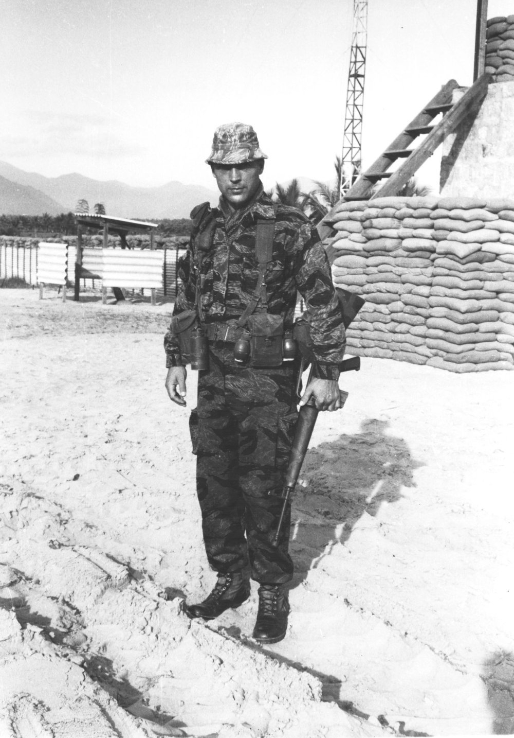 Sergeant First Class Norman A. Doney wearing a tiger stripe camouflage uniform, Detachment 52, 5th Special Forces Group (Airborne), unidentified base in Vietnam